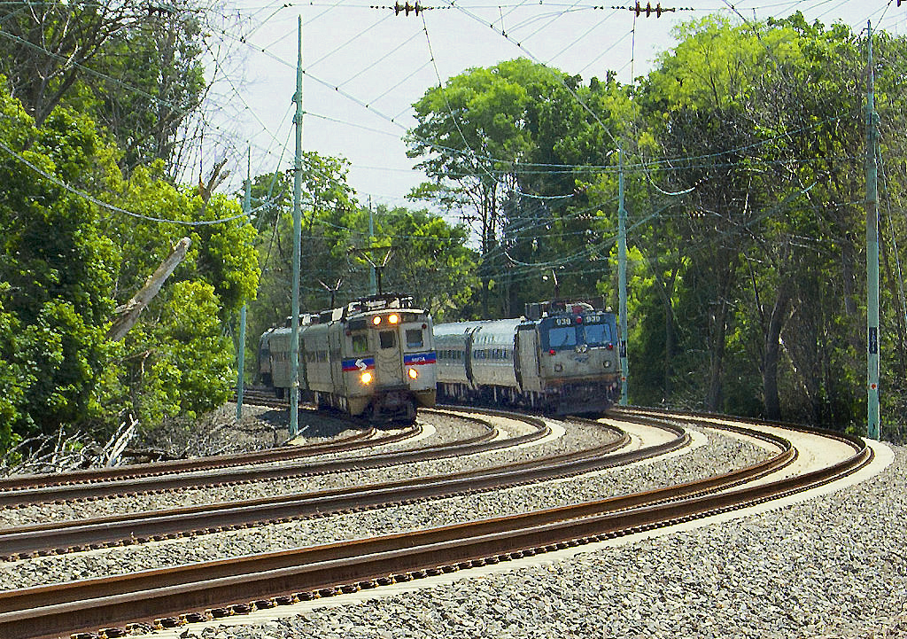 SEPTA's Paoli/Thorndale Line (formerly "R5") westbound TR#1529 on Track 4 (left) and Amtrak's "Keystone Service" (New York-Philadelphia-Harrisburg) eastbound TR#666 on Track 2 (right) passing each other at the Rosemont Curve just east of the SEPTA regional rail station at Rosemont, PA (MP 10.9) on the four track Philadelphia to Pittsburgh "Main Line" grade of the "Keystone Corrider". Built, owned, and operated for more than a century by the Pennsylvania Railroad, since April 1, 1976, the grade (including all stations) as far as Harrisburg (MP 105.2) has been owned and operated by Amtrak over which SEPTA also has operating rights for its Philadelphia regional rail commuter service between Zoo Interlocking (MP 1.9) and Cork Interlocking (MP 68.1) although by agreement between SEPTA and PennDOT, revenue service is prohibited west of Parkesburg (MP 44.2), the last station in Chester County. This portion of the grade was electrified by the Pennsylvania Railroad in 1915.